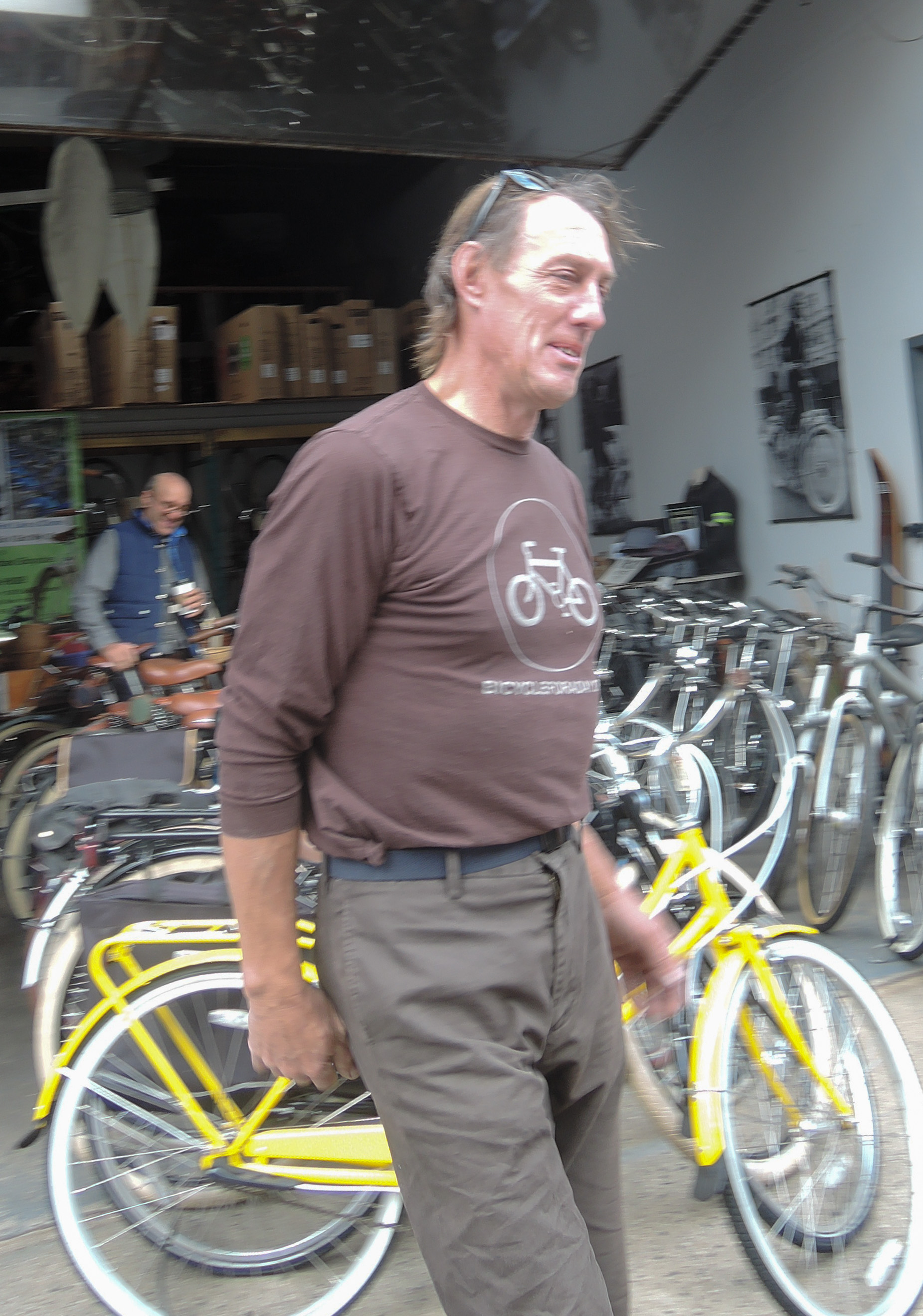 Looking northeast as George Bliss speaks to a customer at his HUB shop on Charles street on a sunny midday.